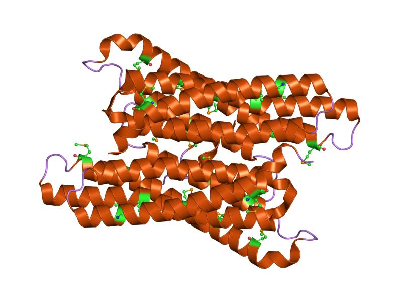 Cartoon representation of the molecular structure of protein registered with 1o5h code.